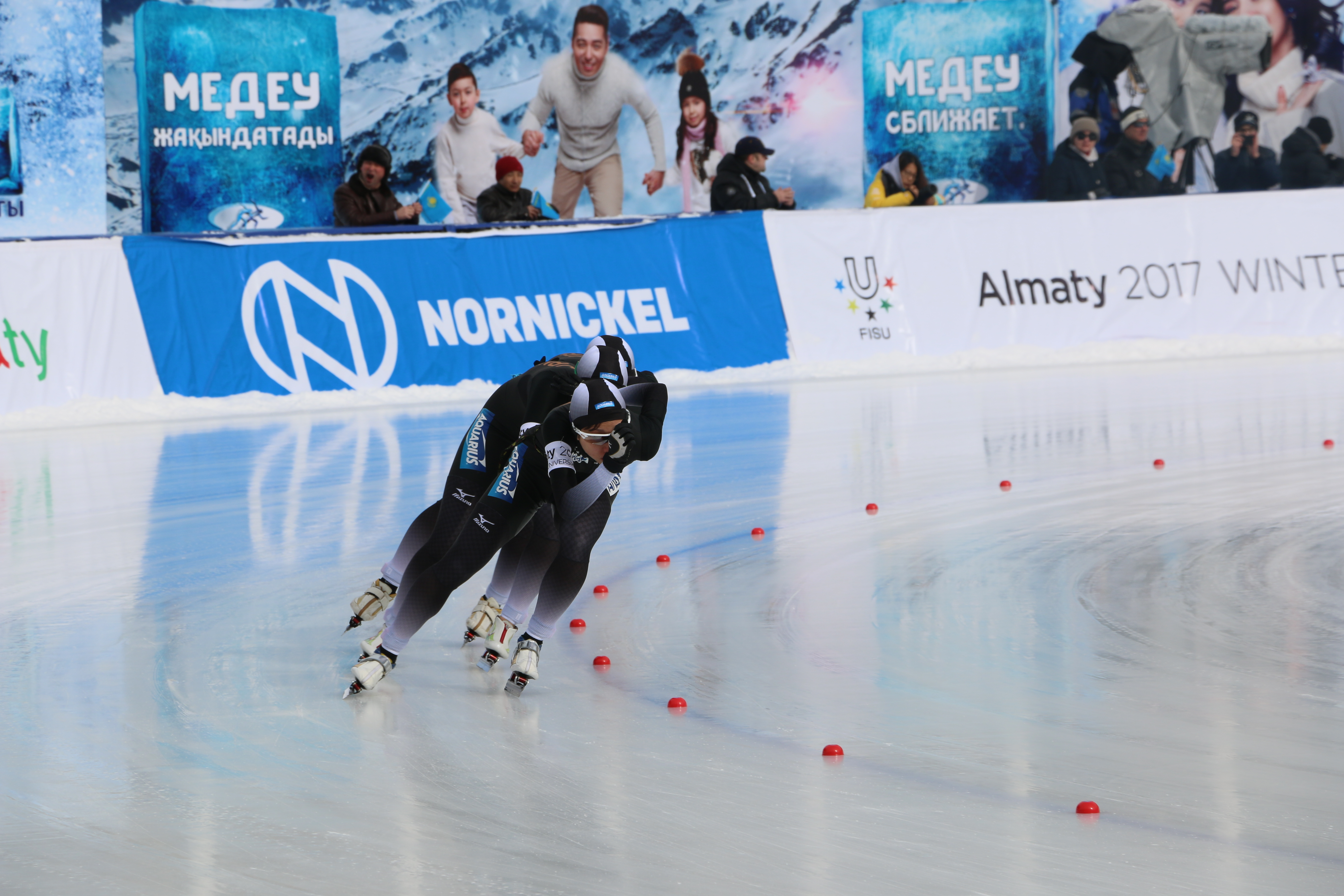 Universiade 2017. Speed Skating. Women's team pursuit. ITA - JPN. Team Japan includes: Nene Sakai, Nana Takahashi, Mai Yamada.